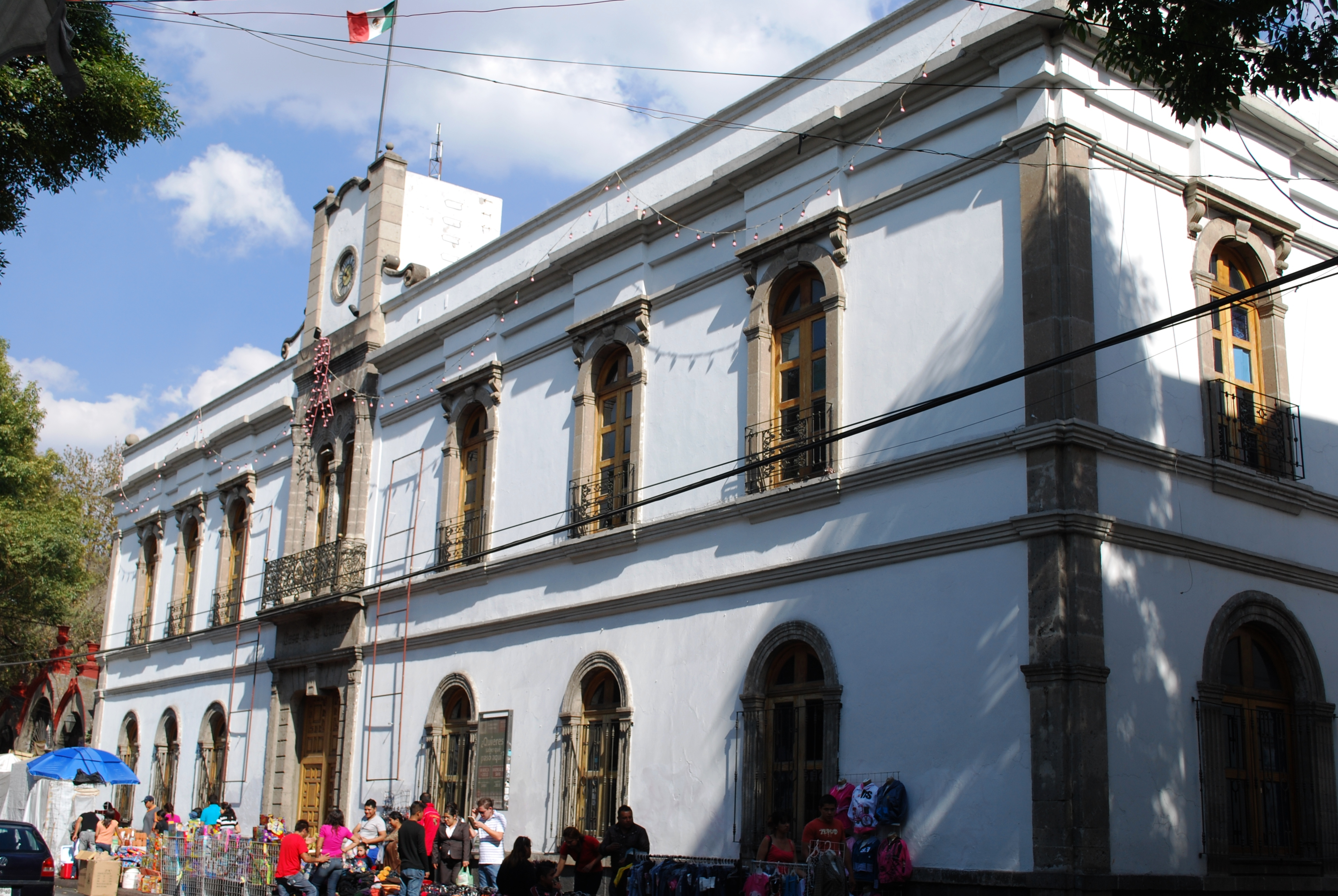 Former municipal hall and current cultural center of Azcapotzalco, Mexico City